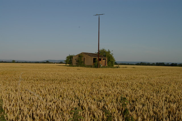 Old airfield building near Worminghall. Corn growing on the disused Oakley Airfield.